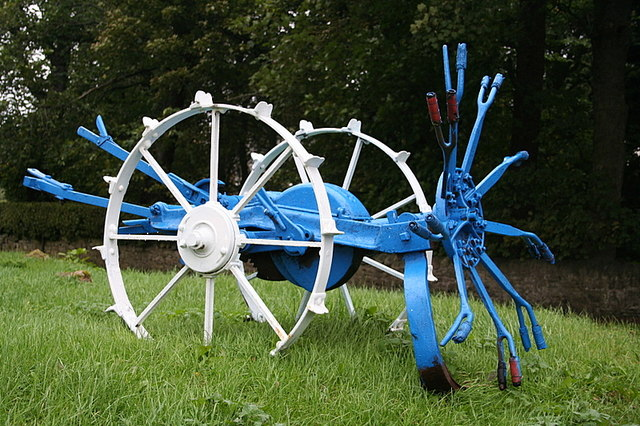 Old potato digger at Drumin museum. I've picked tatties for half a crown a day in the early sixties but it is only today that I have witnessed a potato digger in such splendid livery!!